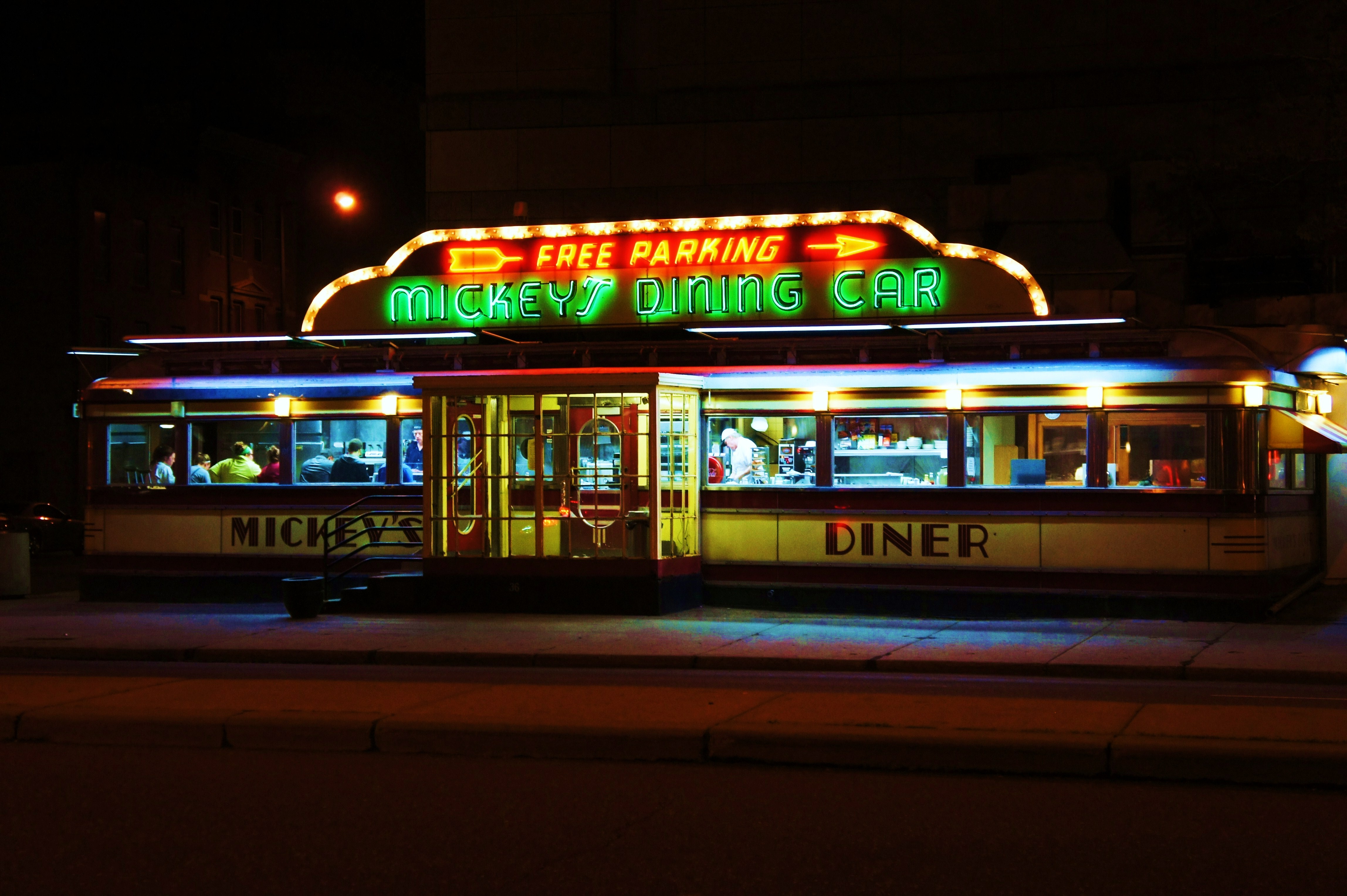 Mickey's Diner